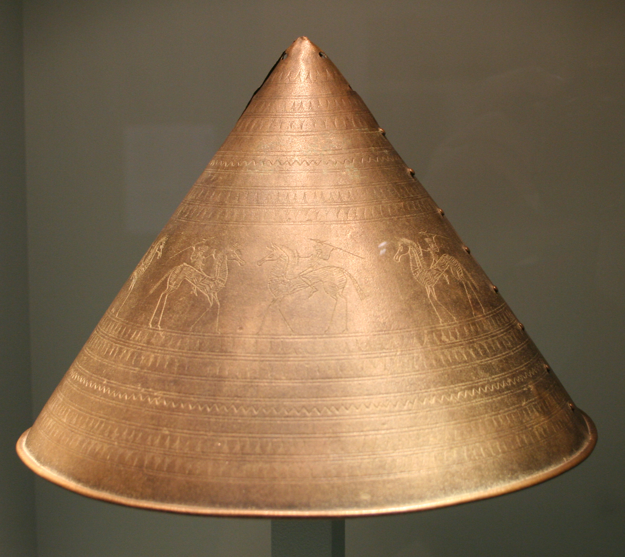 Museum für Vor- und Frühgeschichte (Museum of prehistory and early history), Berlin